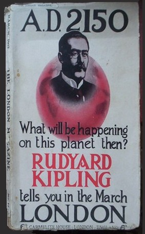 Cover of the March 1912 issue of The London Magazine, for Kipling's As Easy As A.B.C. - this image was originally a photograph of the magazine which I've adjusted for perspective etc., unfortunately the photograph was small and no better image is available.